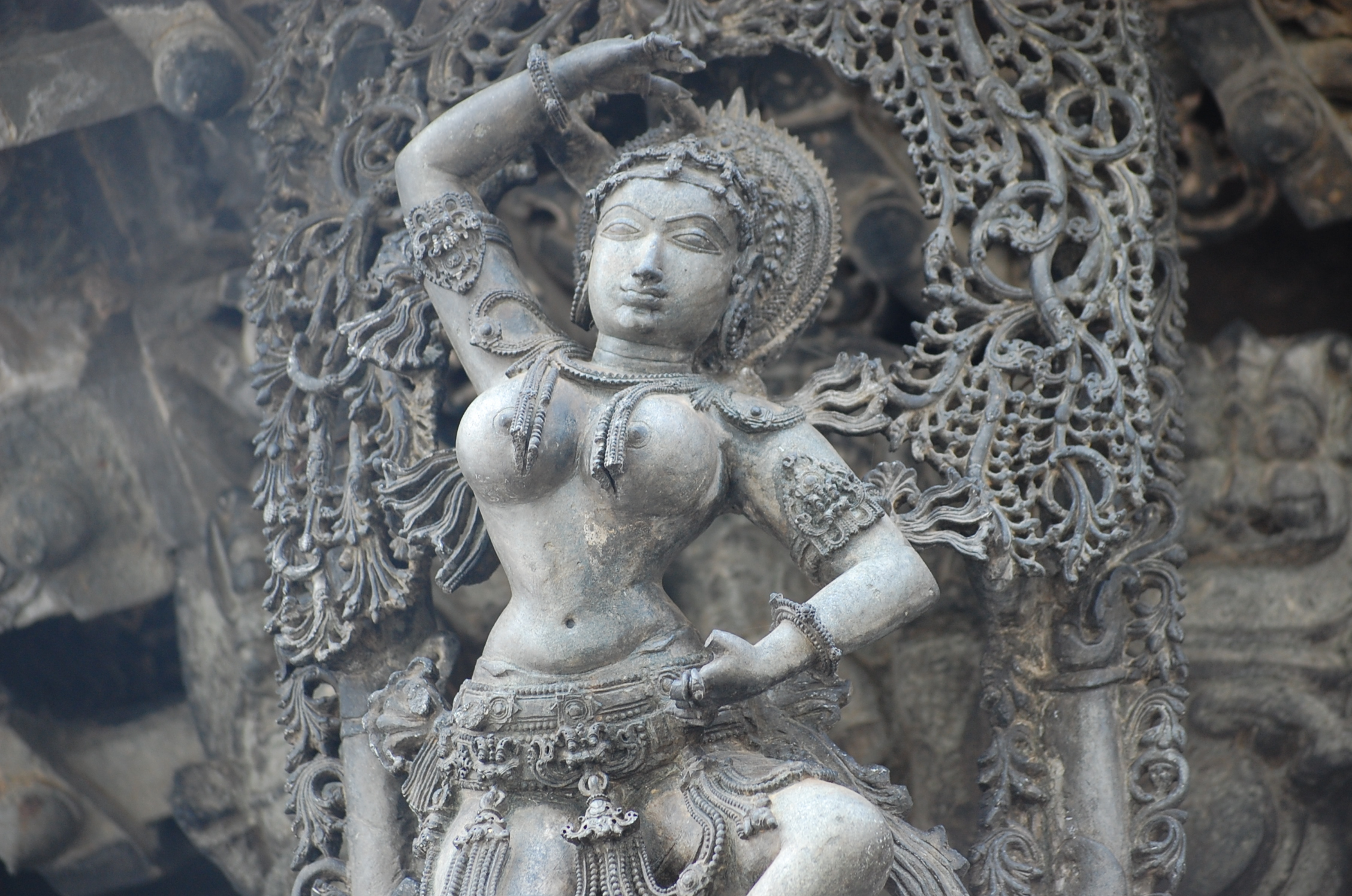 shilabalika 2